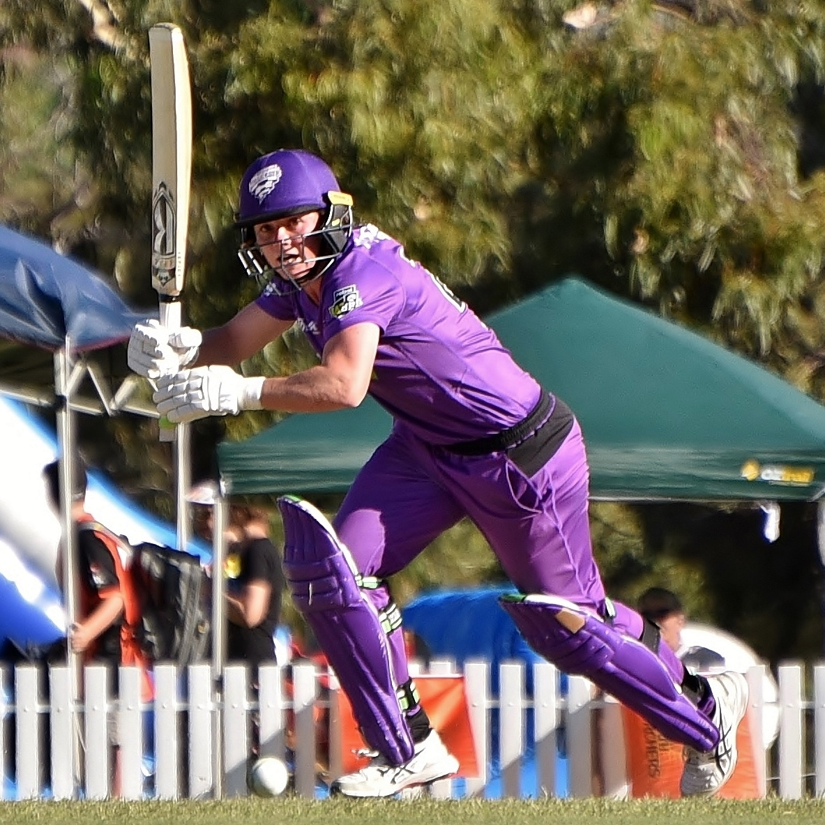 Hobart Hurricanes captain Corinne Hall batting against the Perth Scorchers, in a WBBL match at Lilac Hill Park in Perth